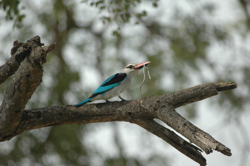 Woodland kingfisher with thread-snake prey in Mpumalanga, South Africa